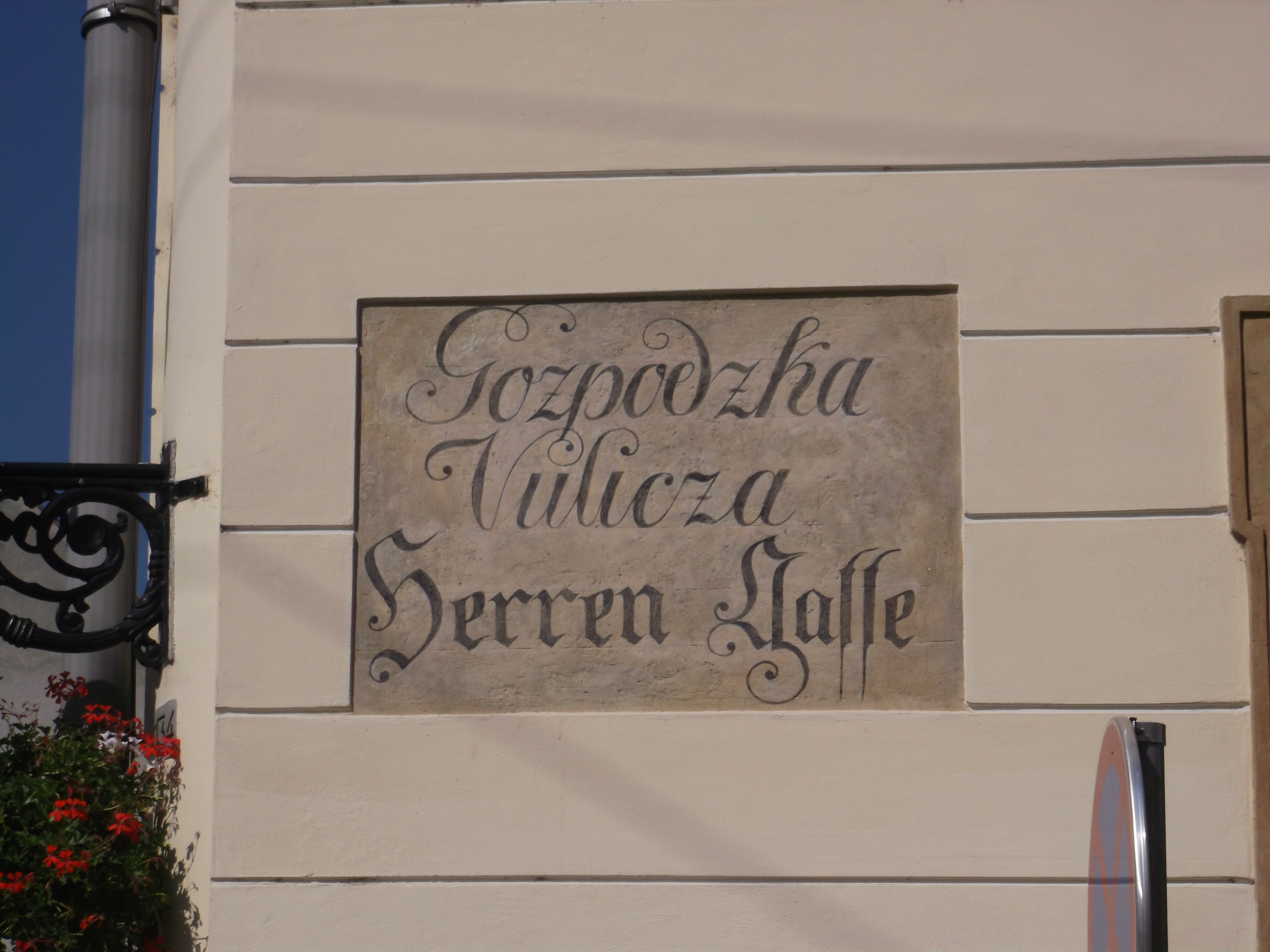 Bilingual Kajkavian/German street sign in Zagreb from the 19th century. Gozpodzka vulicza (Street of the Laird).